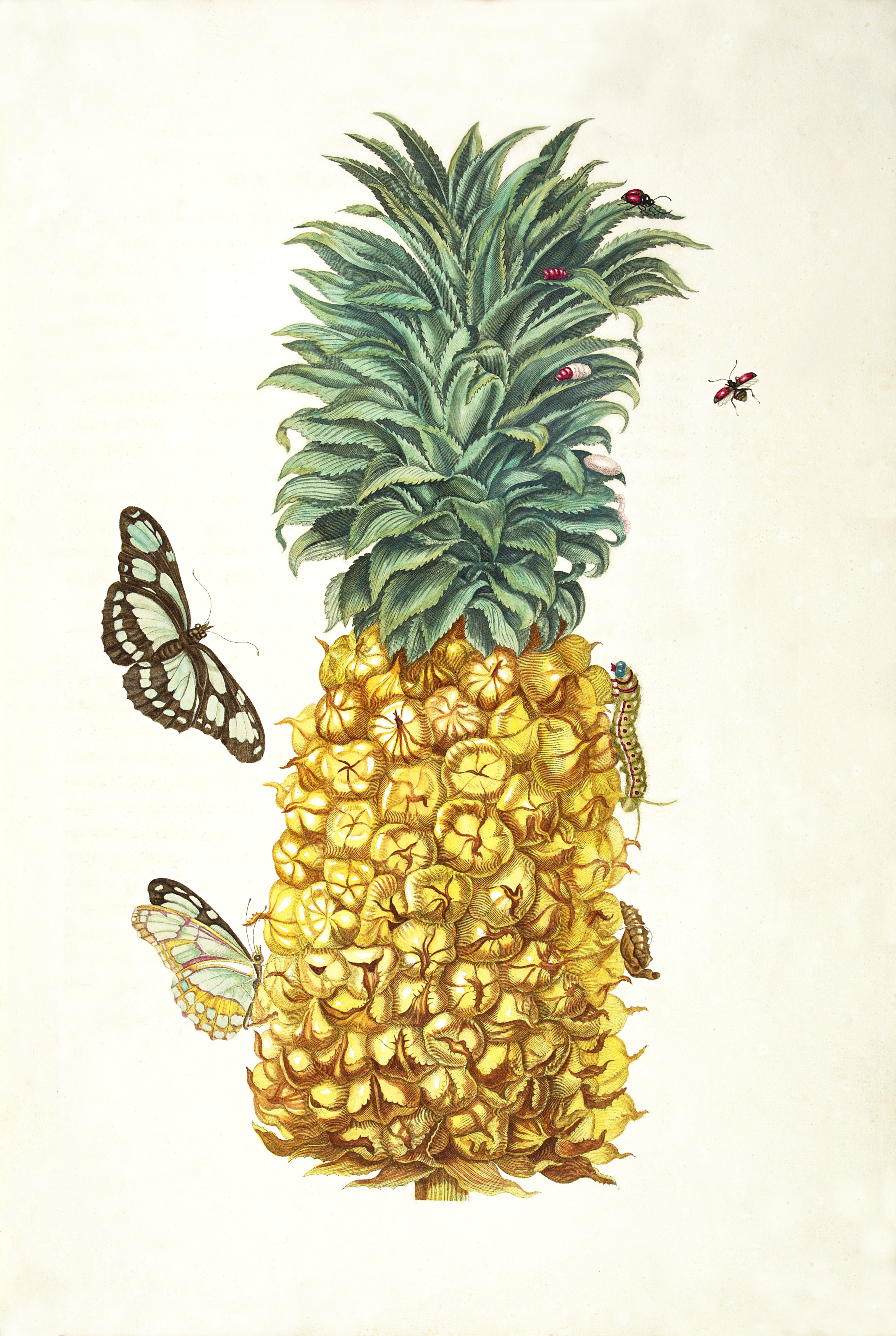 rype ananas, ripe pineapple plate II. See text at GDZ Göttingen; image loaded from 1719 edition at University of Amsterdam.